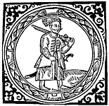 The picture shows the coat of arms of the Ukrainian Cossack State